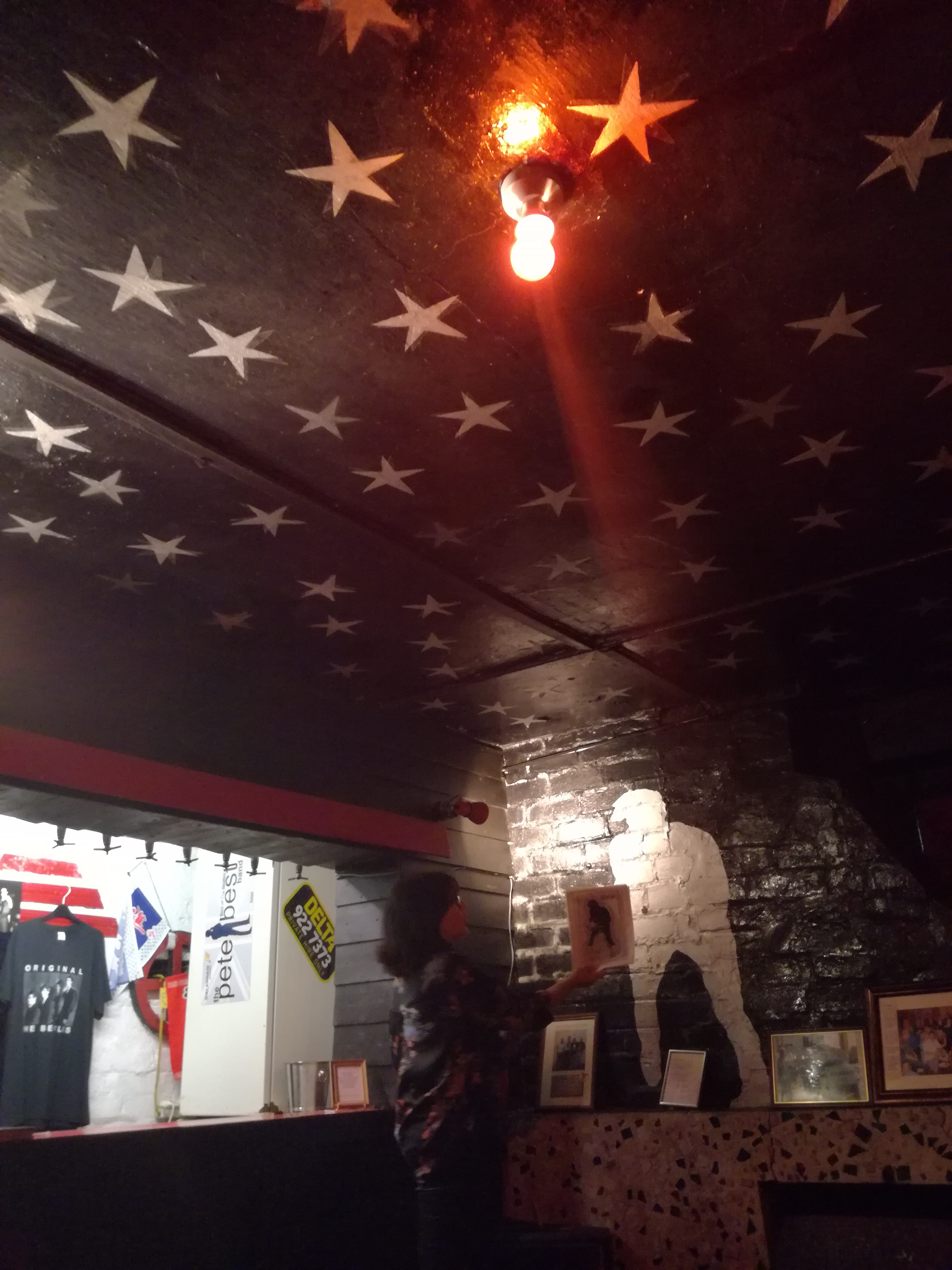 Casbah Coffee Club bar. The stars of the cealing where painted by John Lennon.